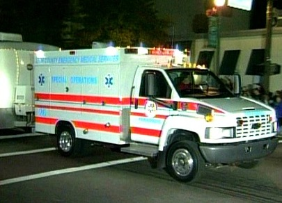 LCEMS Medical Emergency Response Vehicle